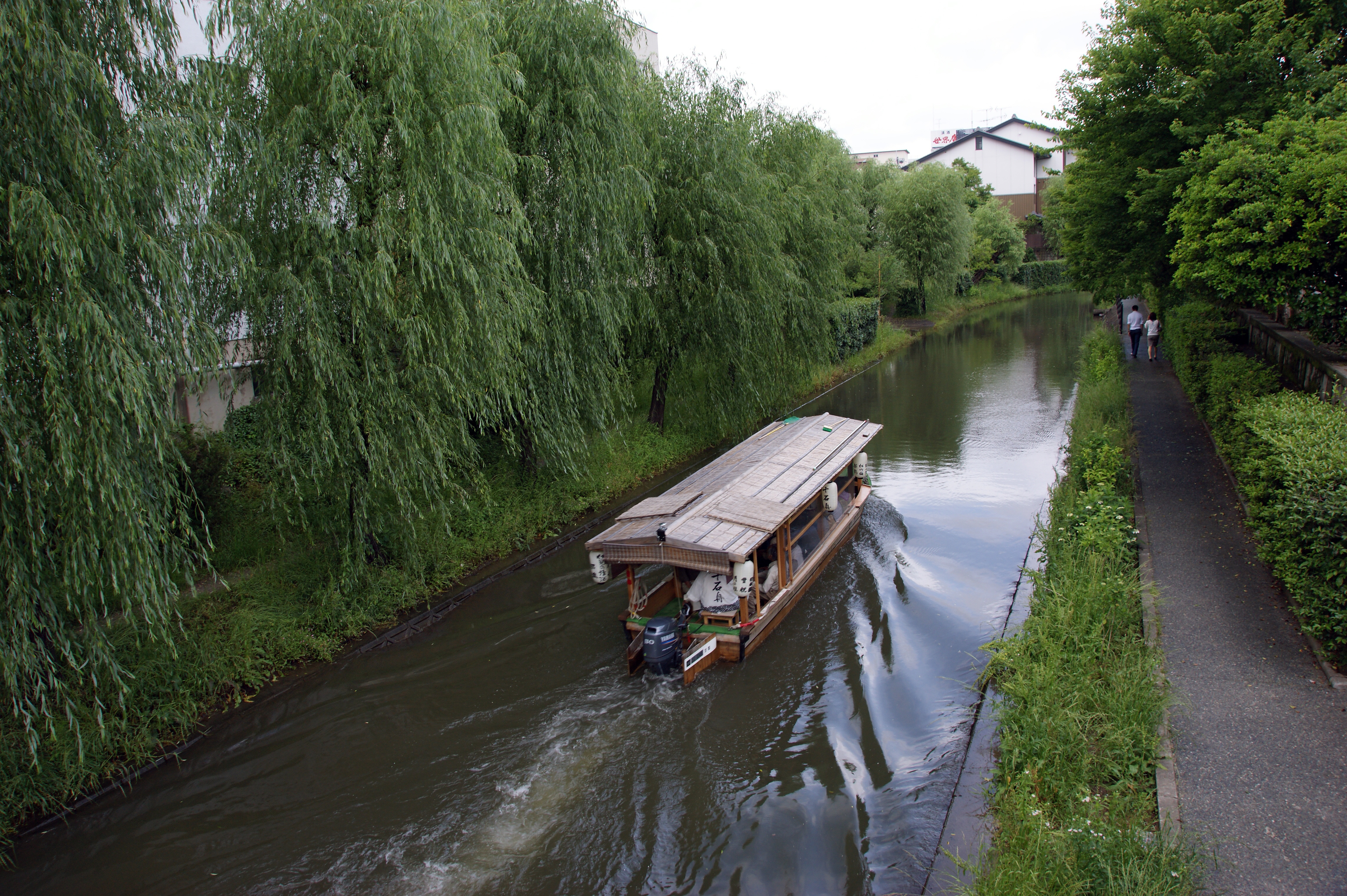 Jukkokubune on Ujigawa-haryu in Fushimi, Kyoto, Kyoto prefecture, Japan